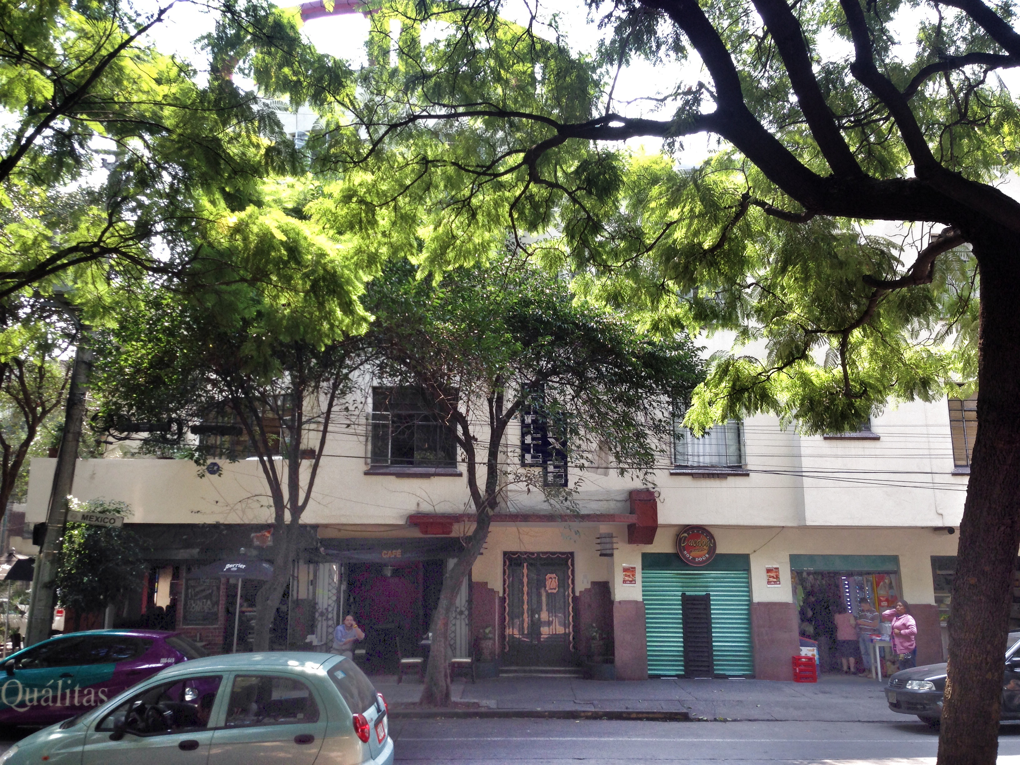 Edificio México (arch. Francisco J. Serrano), colonia Hipódromo, Condesa, Mexico City